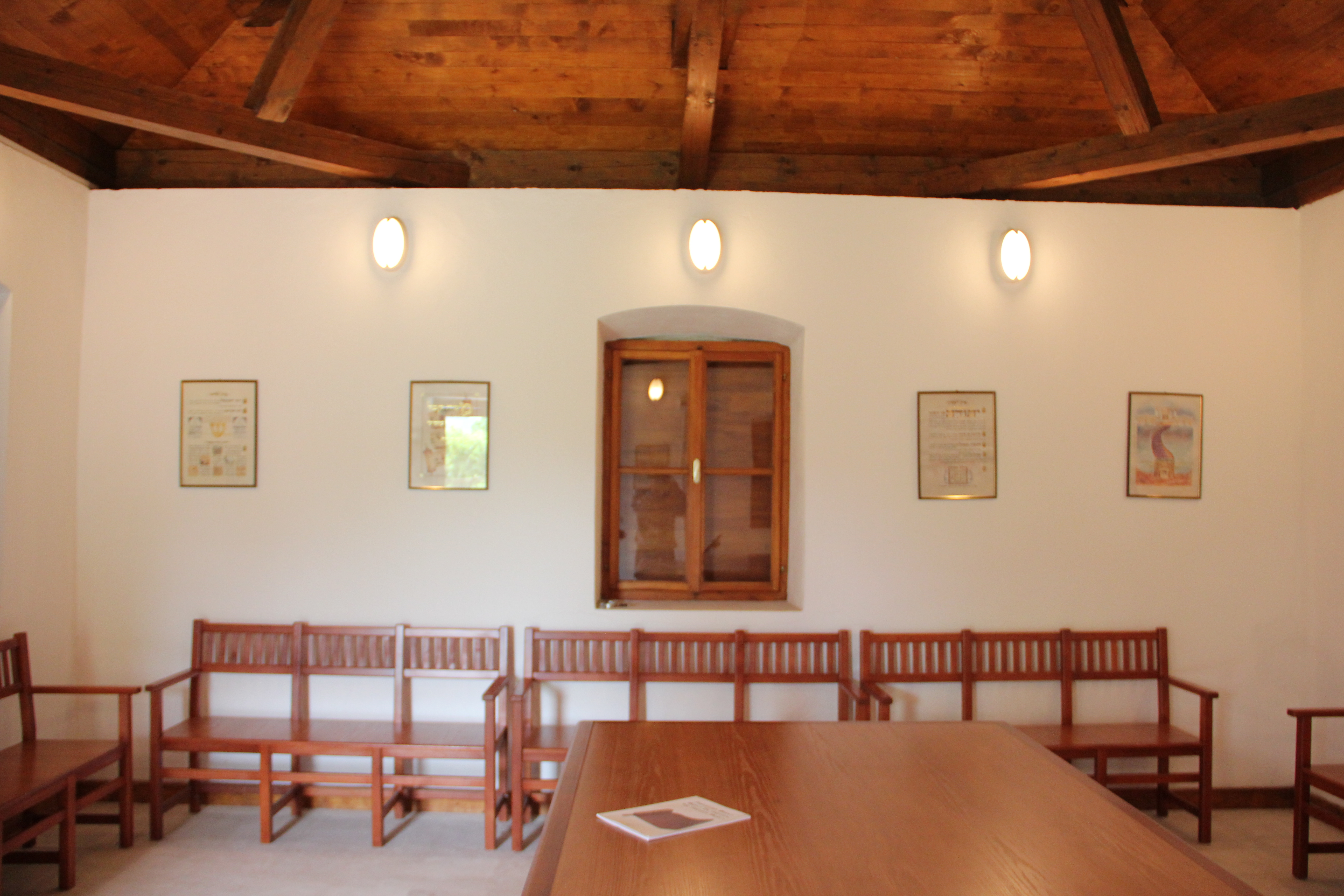 The synagogue in Stolac built for the Pilgrims To Moshe Danons' Grave.